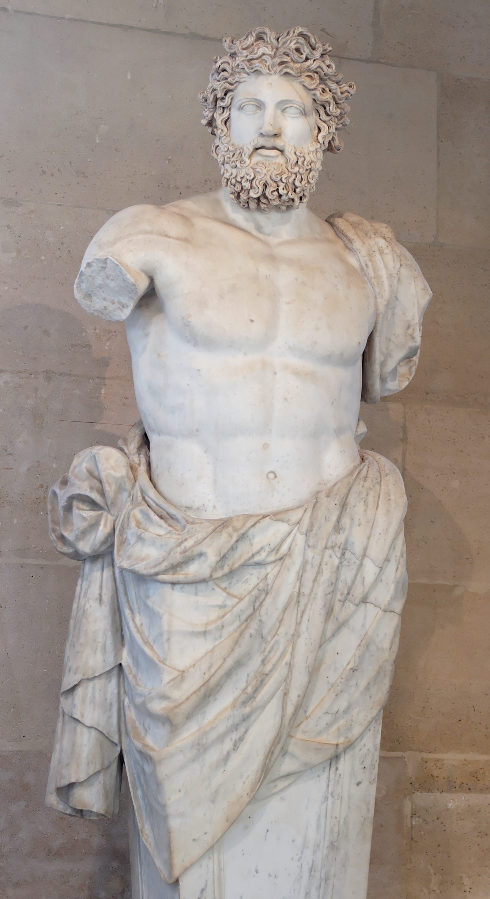 Colossal bust of Zeus known as "Jupiter of Versailles". Found in 1525 near the Porta del Popolo in Rome. Given in 1623 to Louis XIV, who asked Jacques Drouilly to transform it into a herm pillar. Marble, 2nd century CE.